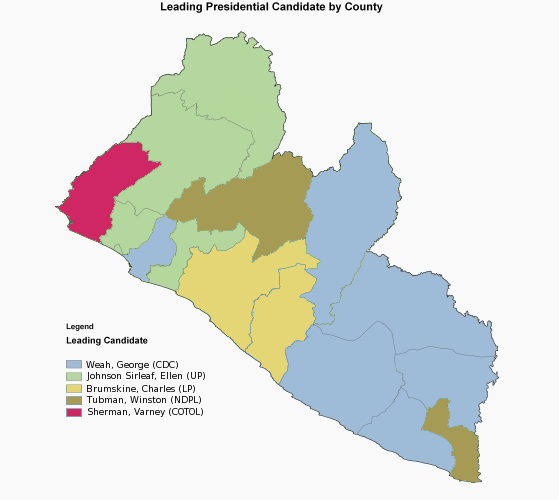 A map of the 1st round results of the 2005 Liberian presidential election, with the winner of the most votes in each county indicated by color.